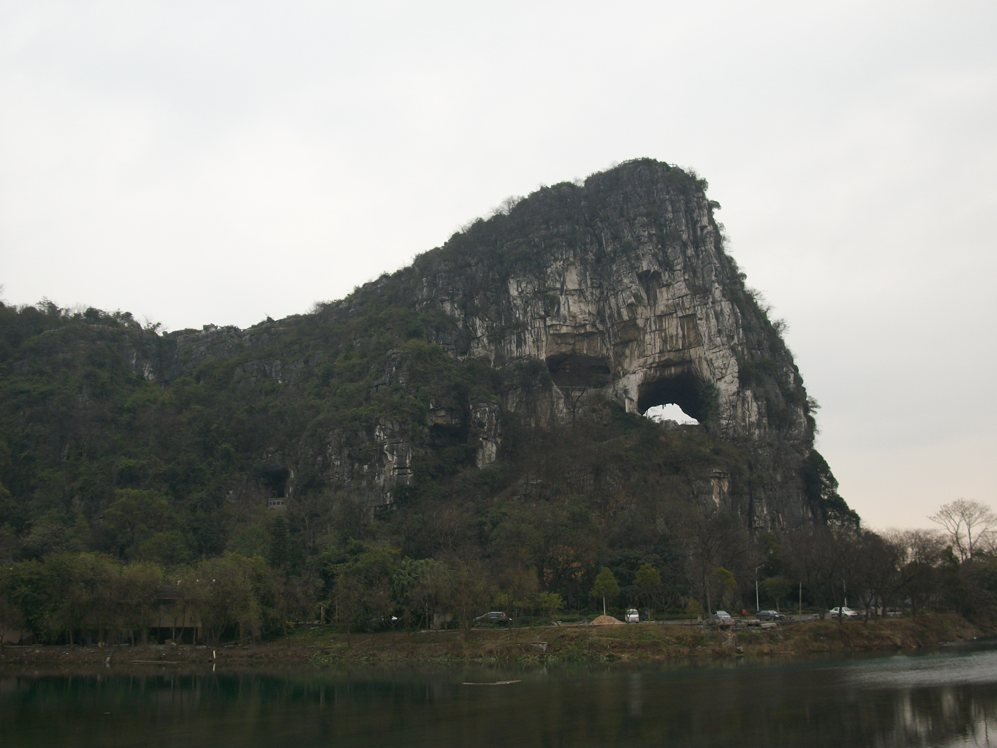 Chuanshan Hill, Guilin.